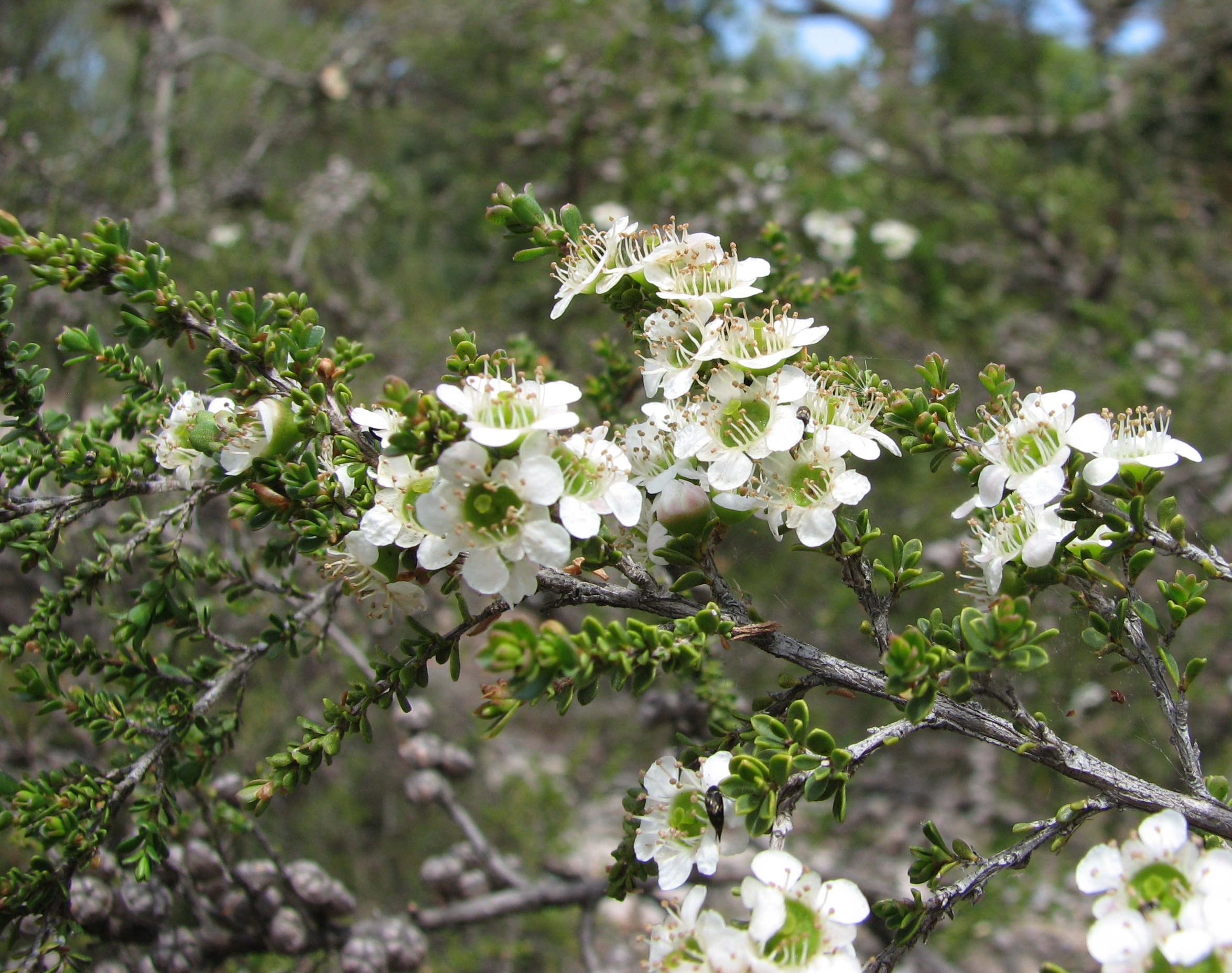 Leptospermum liversidgei (cultivated, labelled), Maranoa Gardens, Balwyn, Victoria, Australia